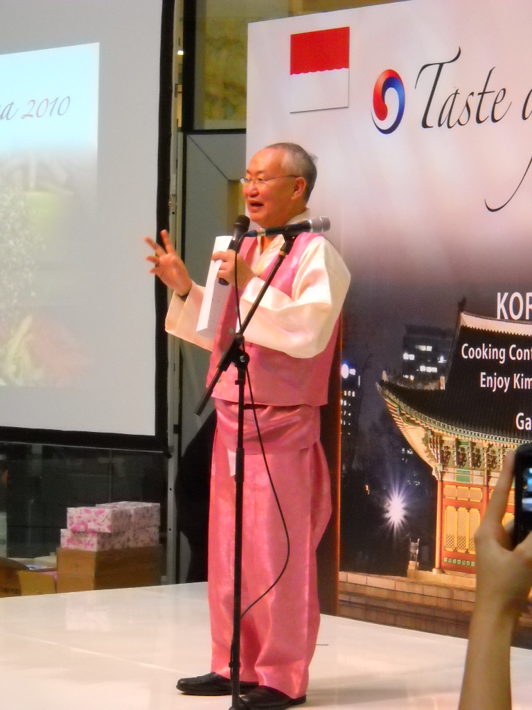 William Wongso, an Indonesian culinary professional in Indonesia-Korea Culture Exchange 2010, Gandaria City, Jakarta, Indonesia